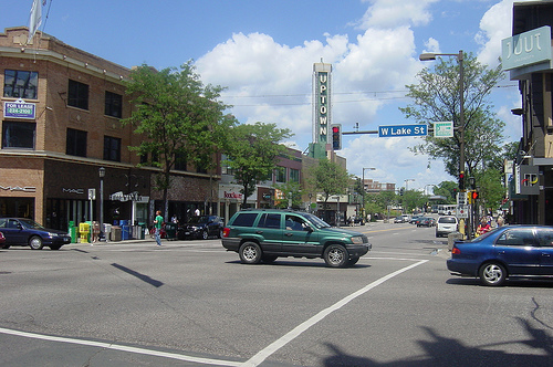 Uptown Minneapolis at Hennepin Avenue & West Lake Street looking north.